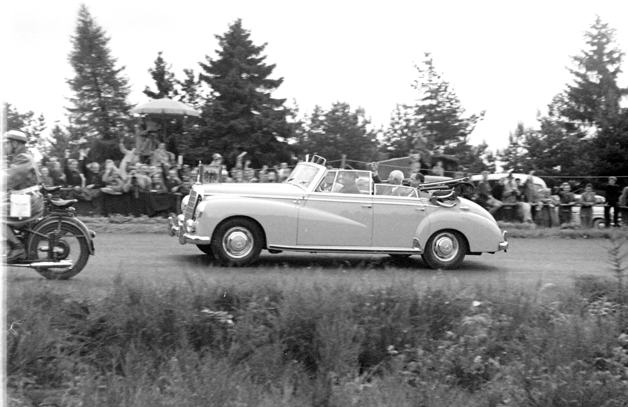 Grosser Preis von Europa, 1954 Nuerburgring, August 1st, The President of the Bundesrepublik Deutschland Theodor Heuss, Mercedes-Benz